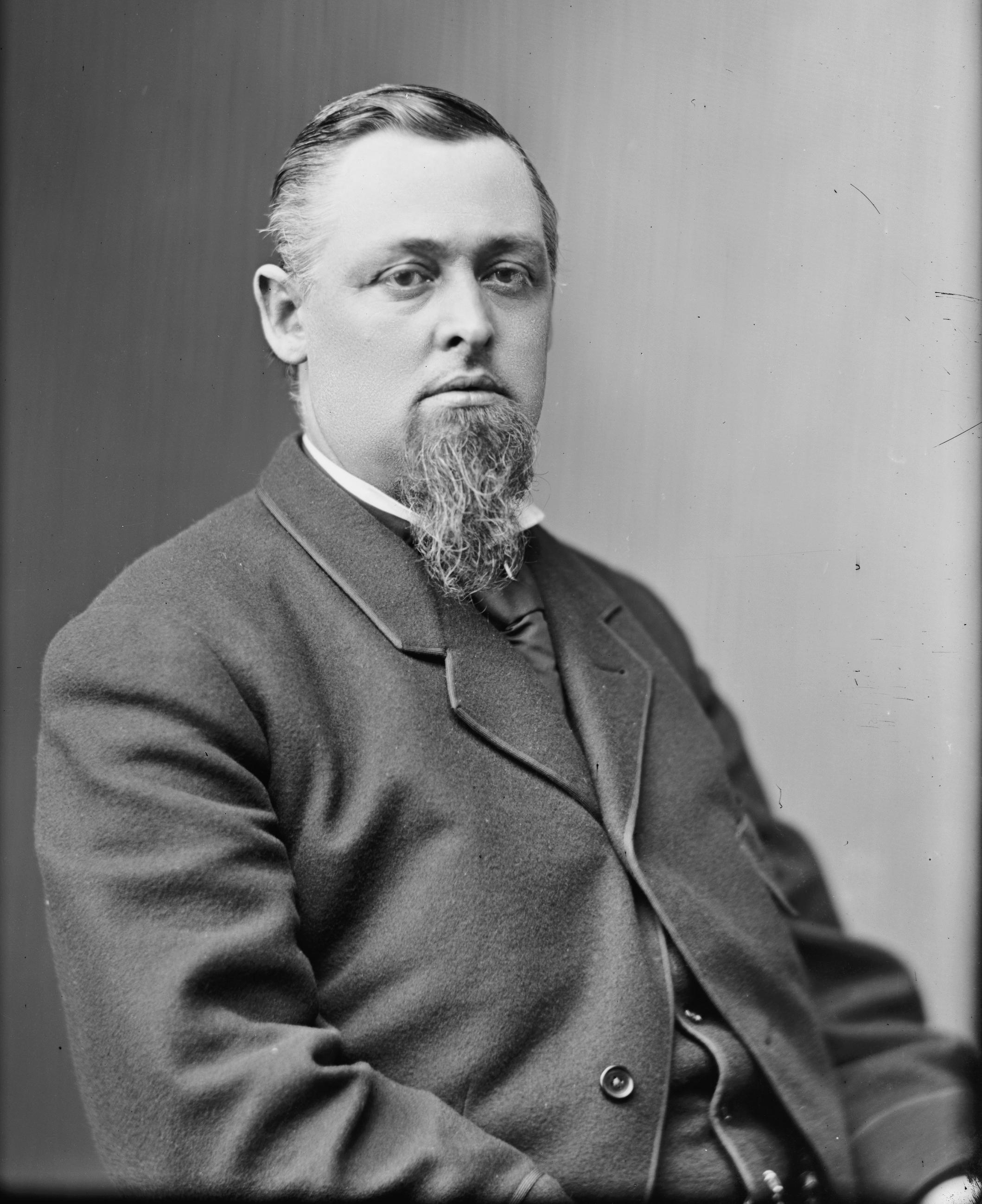 Frank Welch. Library of Congress description: "Welch, Hon. Frank of Nebraska".